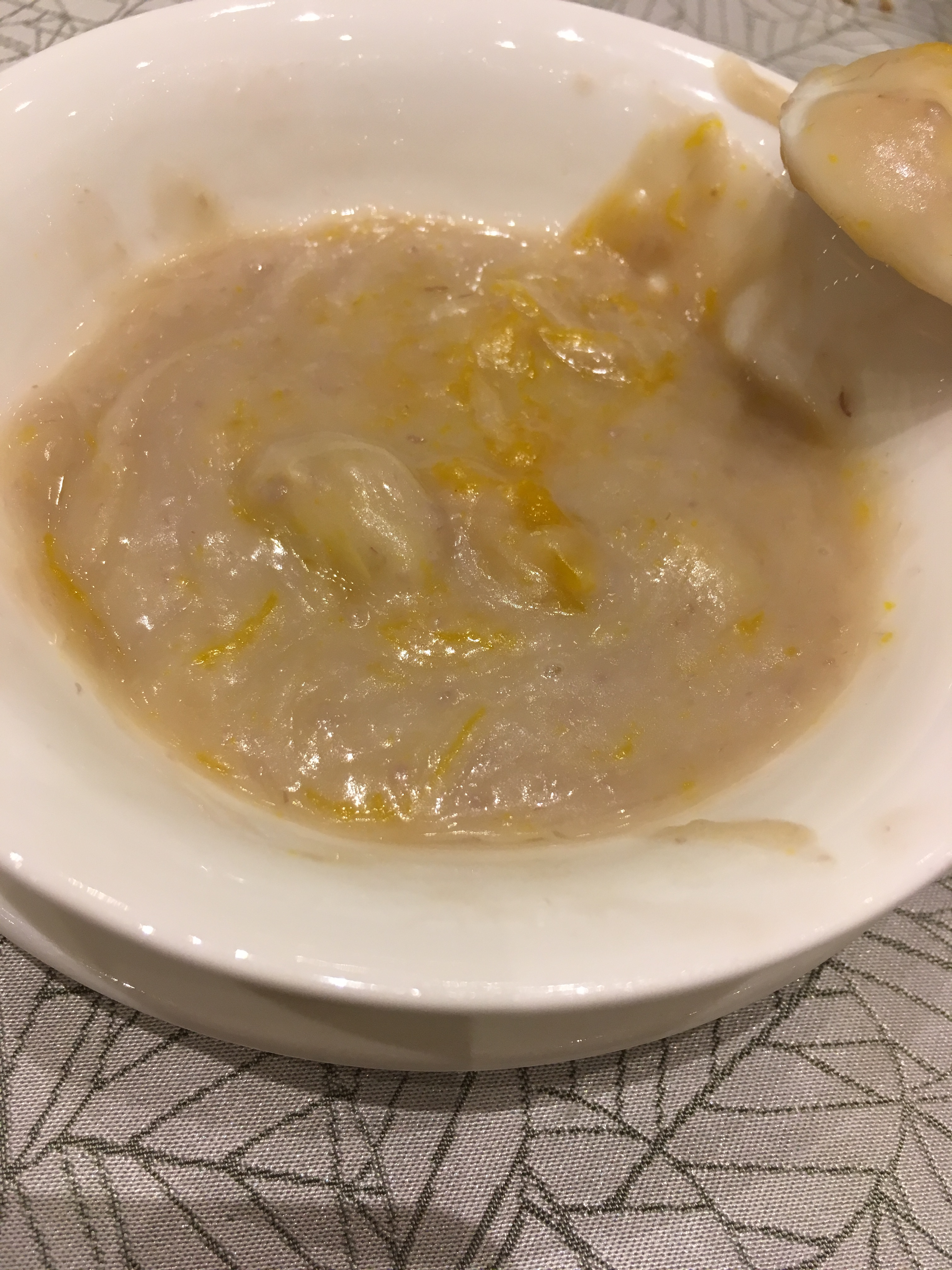 Sweet yam paste, also known as "OR NEE" is a famous traditional Teochew dessert found in Teochew restaurants. Cooked with lard, shallots and lots of sugar, it is usually served warm with ginkgo nuts and pumpkin.